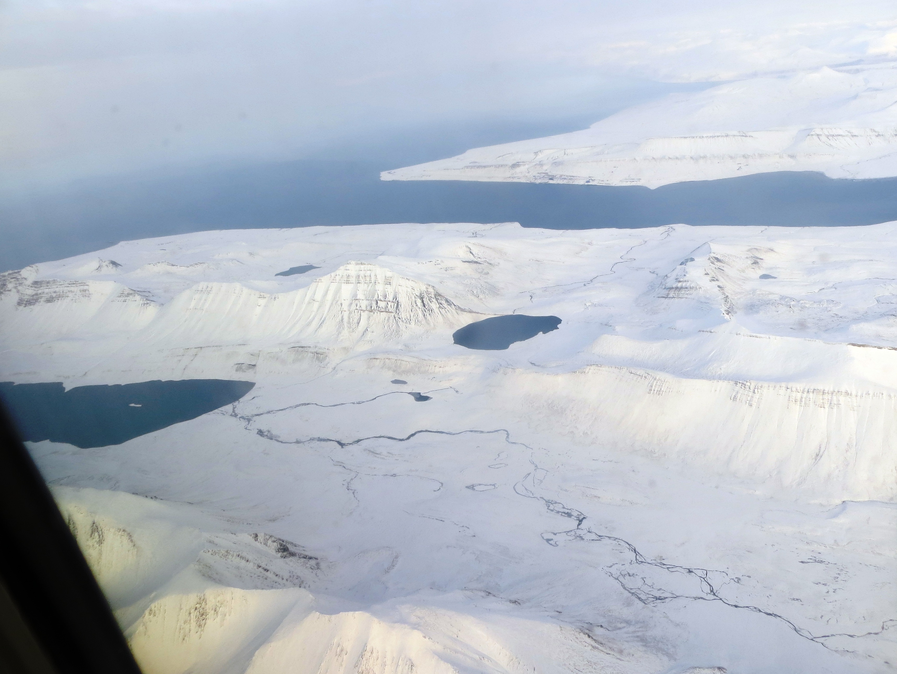 Aerial view of the western part of Nordenskiöld Land, the areas between Bellsund, Grönfjorden and Isfjorden. Western Spitsbergen, Svalbard.